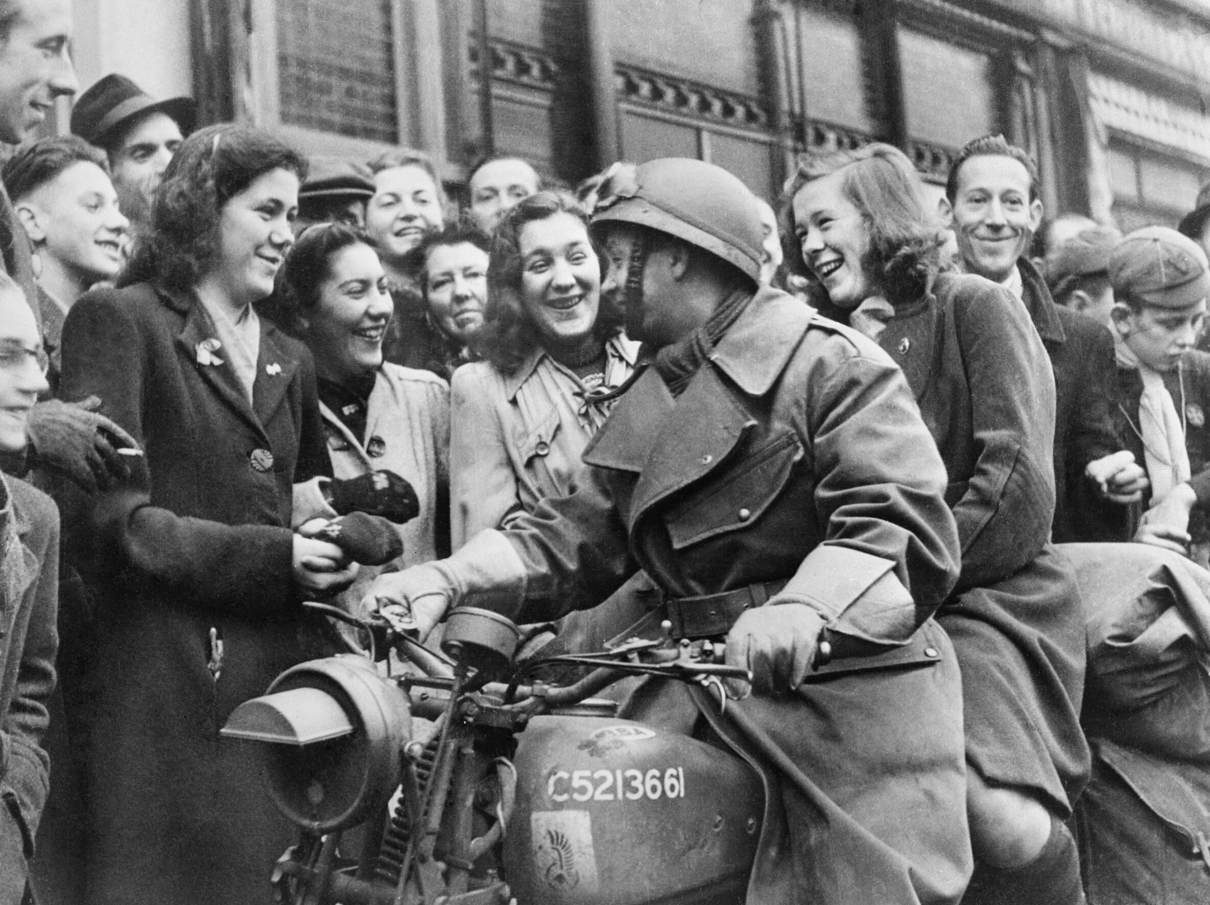 The Polish Army in the North-west Europe Campaign, 1944-1945 Polish dispatch rider with a happy girl as a passenger, pausing in his journey through the Dutch city of Breda to return greetings of overjoyed townpeople, freed by the Poles from the German occupation on 30 October 1944. Note the 1st Polish Armoured Division regimental badge on his BSA M20 motorcycle fuel tank.